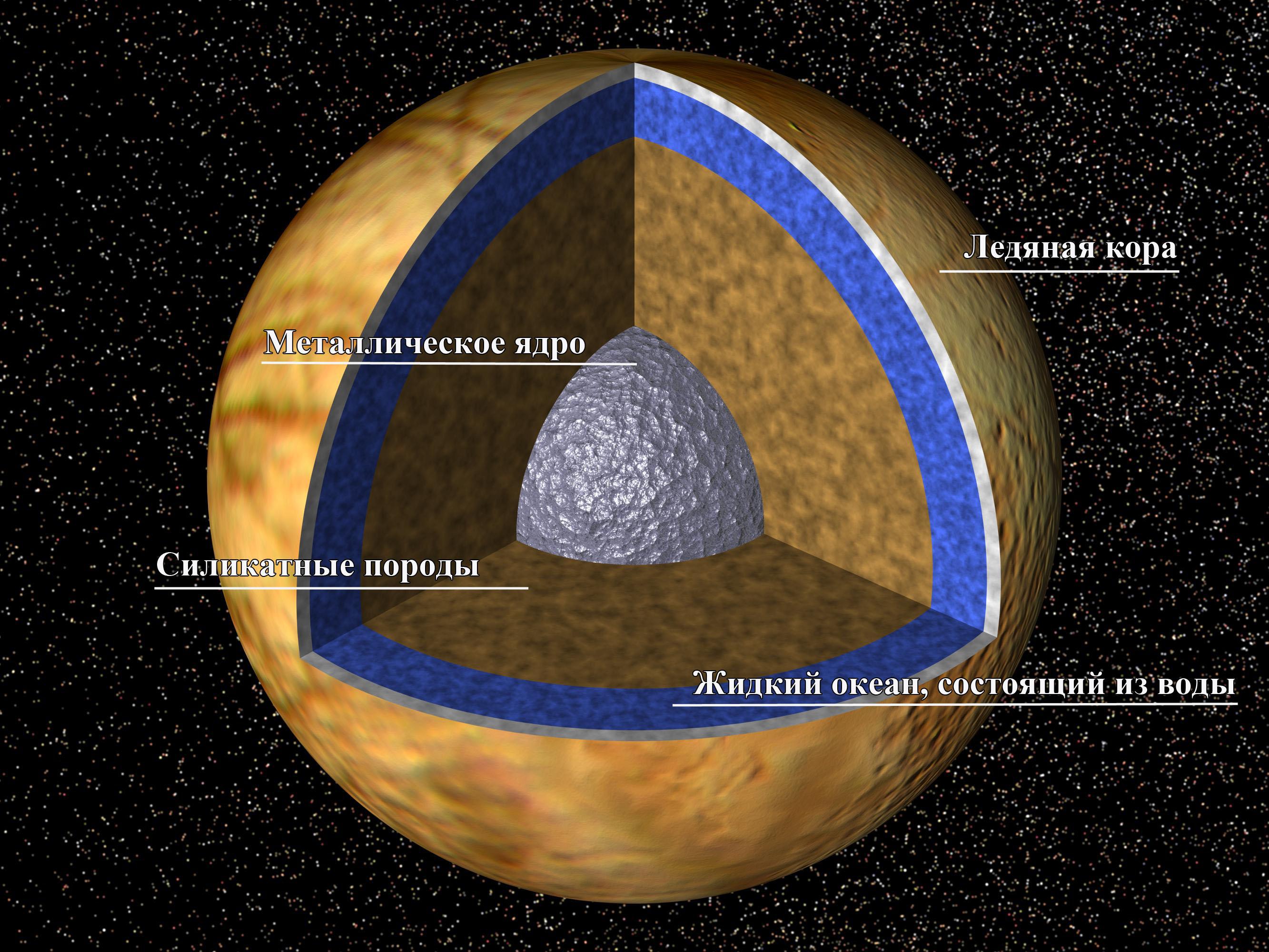 Interior of Europa.